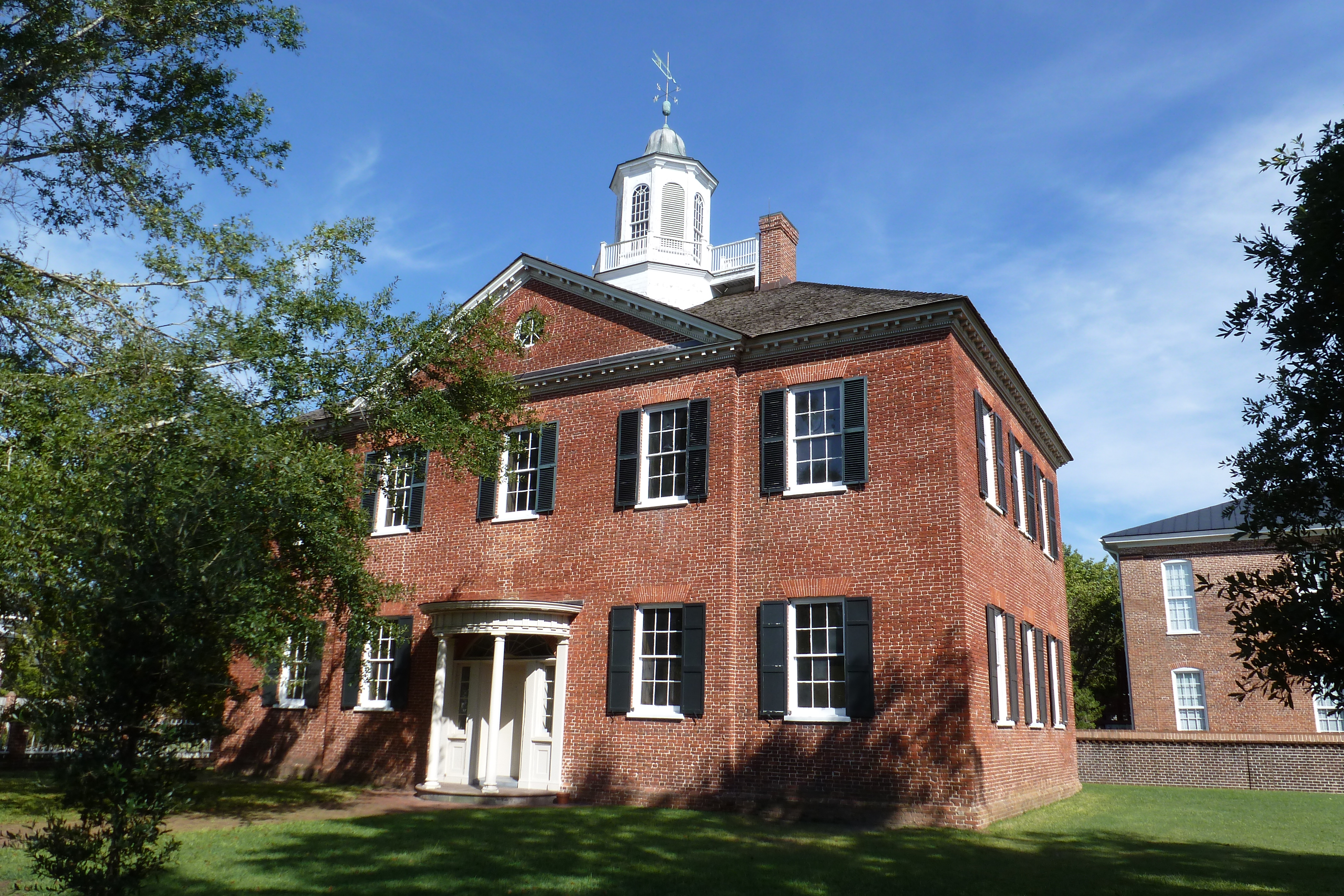 Central Elementary School — 311-313 New Street, New Bern, North Carolina. Founded in 1764 and built c. 1806, New Bern Academy is the oldest public school building in North Carolina, and one of the oldest in America. This early 19th-century building served as a military hospital during the Civil War (Academy Green Hospital) and returned to school functions until 1971. It now houses exhibits focusing on the history of New Bern, including much on the Civil War.